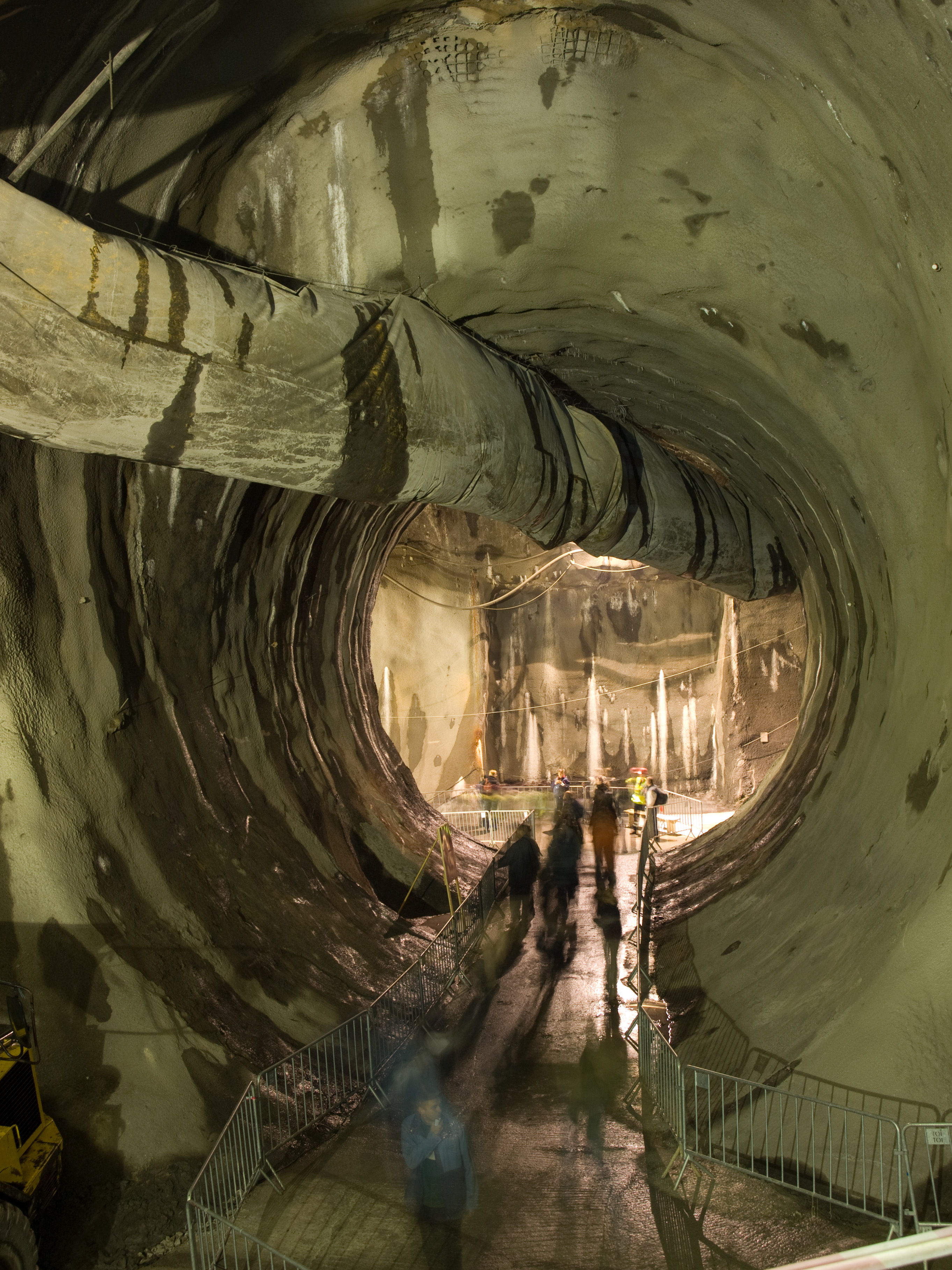 Špejchar – Troja segment, Open doors days in Blanka tunnel in september 2010, Prague